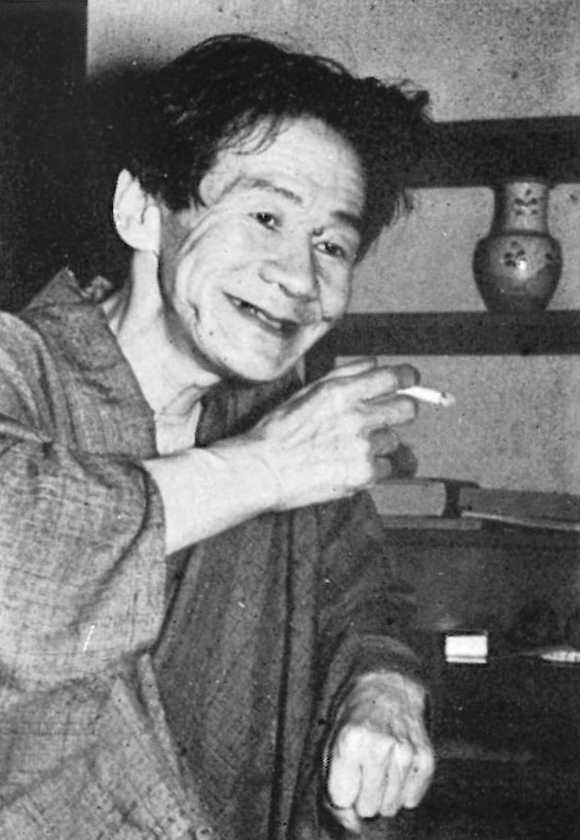 Tamotsu Takada